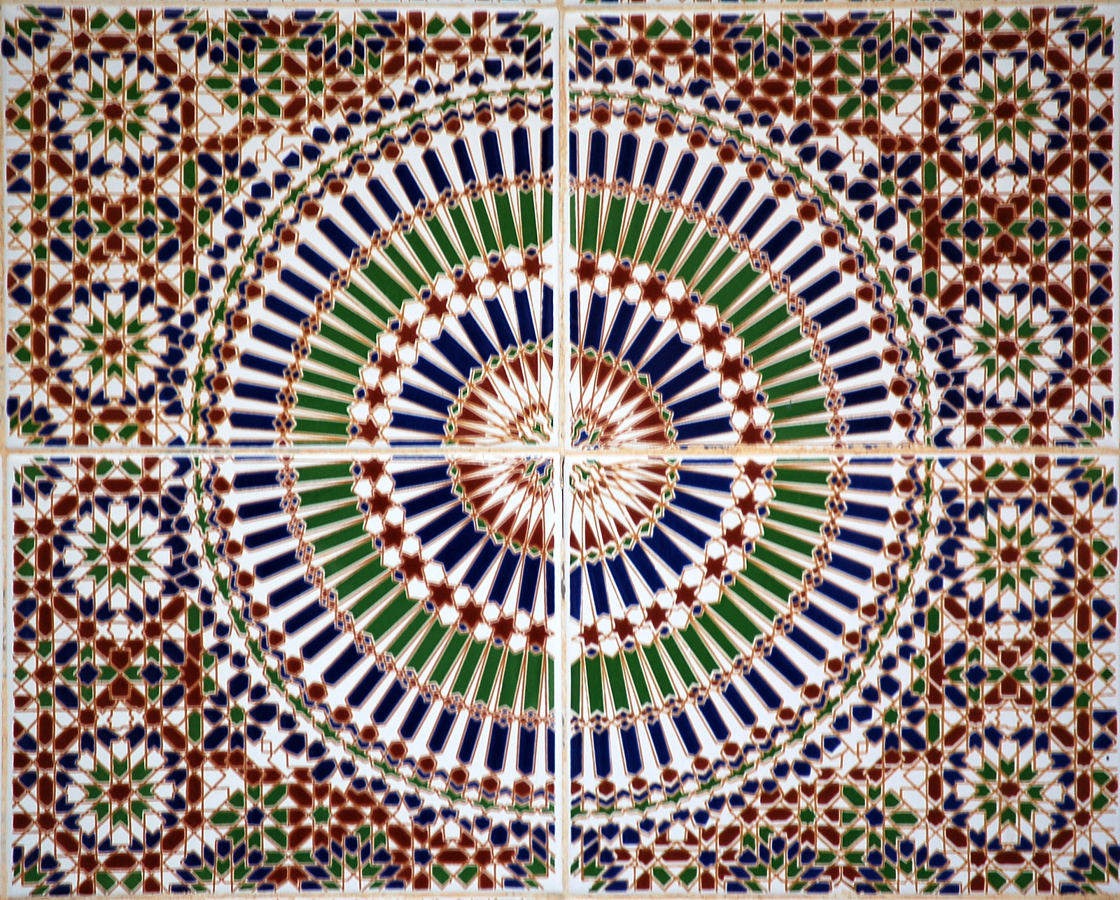 One of the ornaments of Morocco